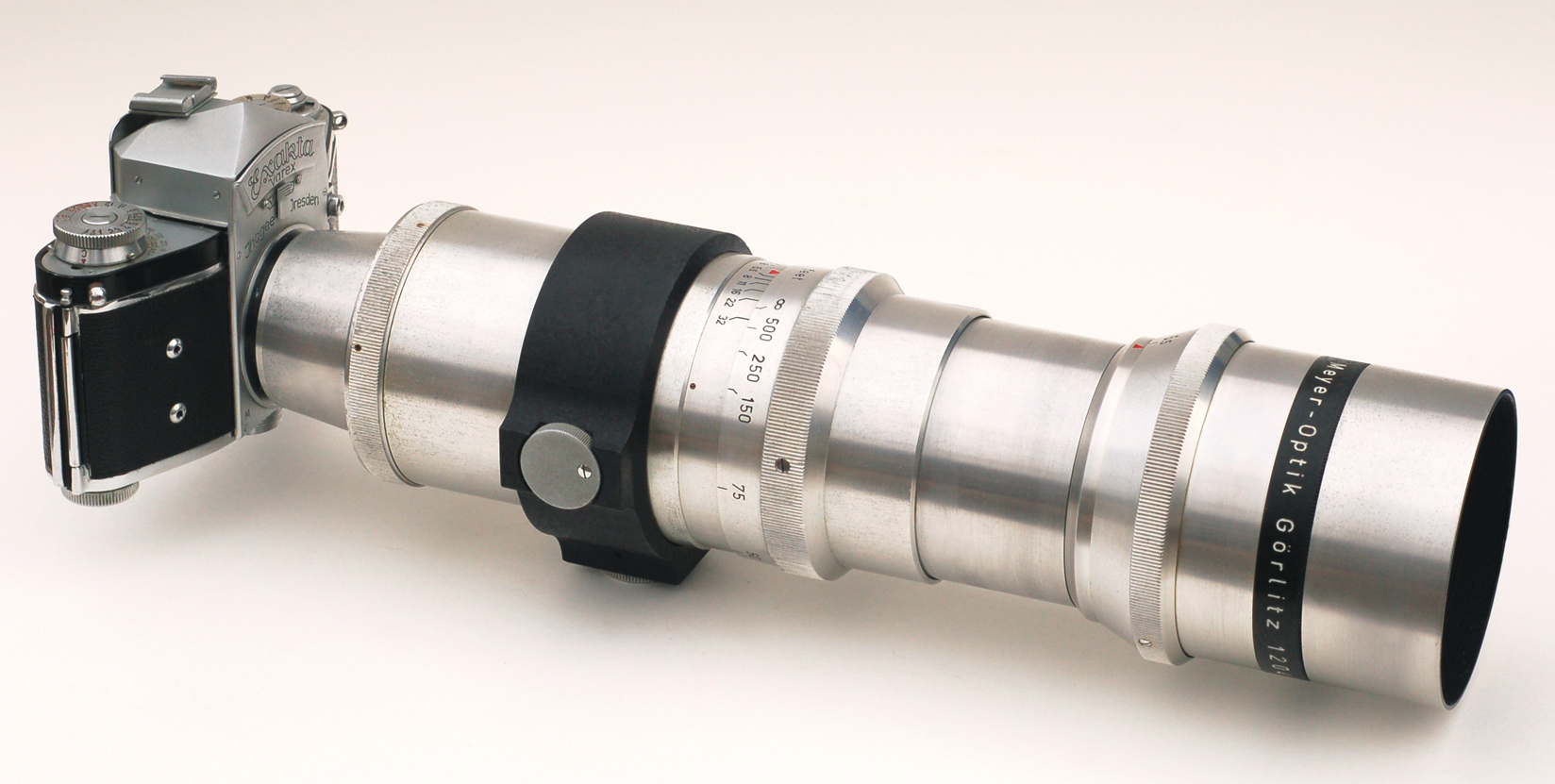 Here is the Exakta Varex fitted with a Meyer-Optik 400mm Telemegor lens. Actually, it's more like the lens is fitted with the camera. Picked this lens up for $35, and the seller threw the camera in for free! All I need now is a cast-iron tripod...